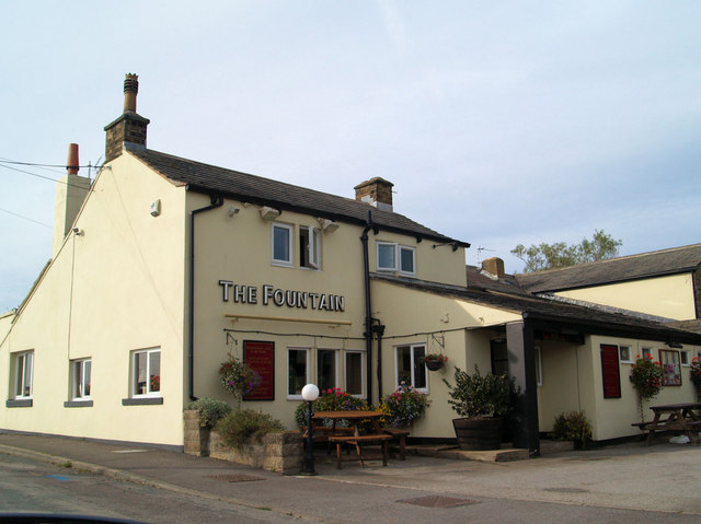 The Fountain public house and restaurant